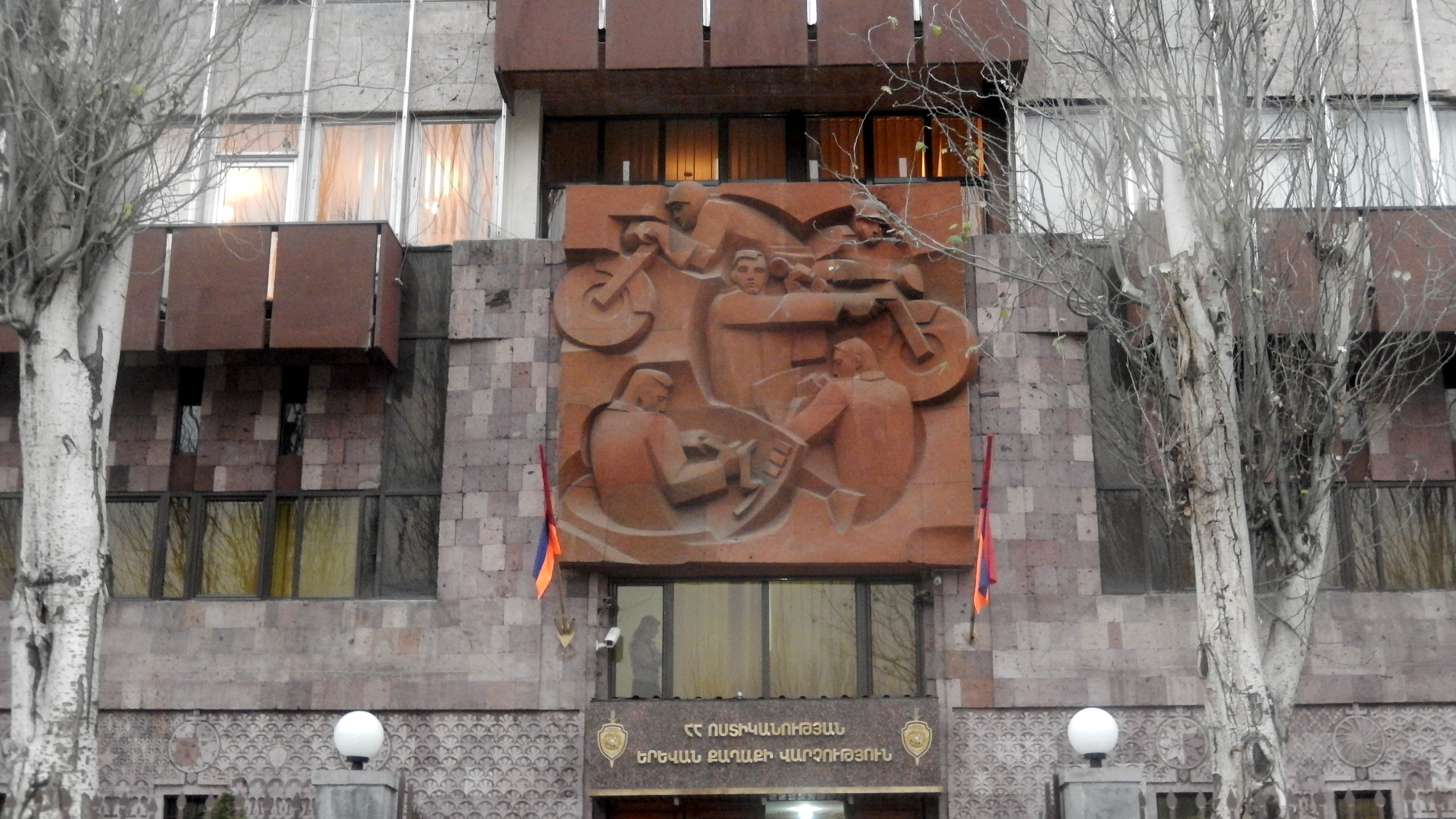 Yerevan City Police Building